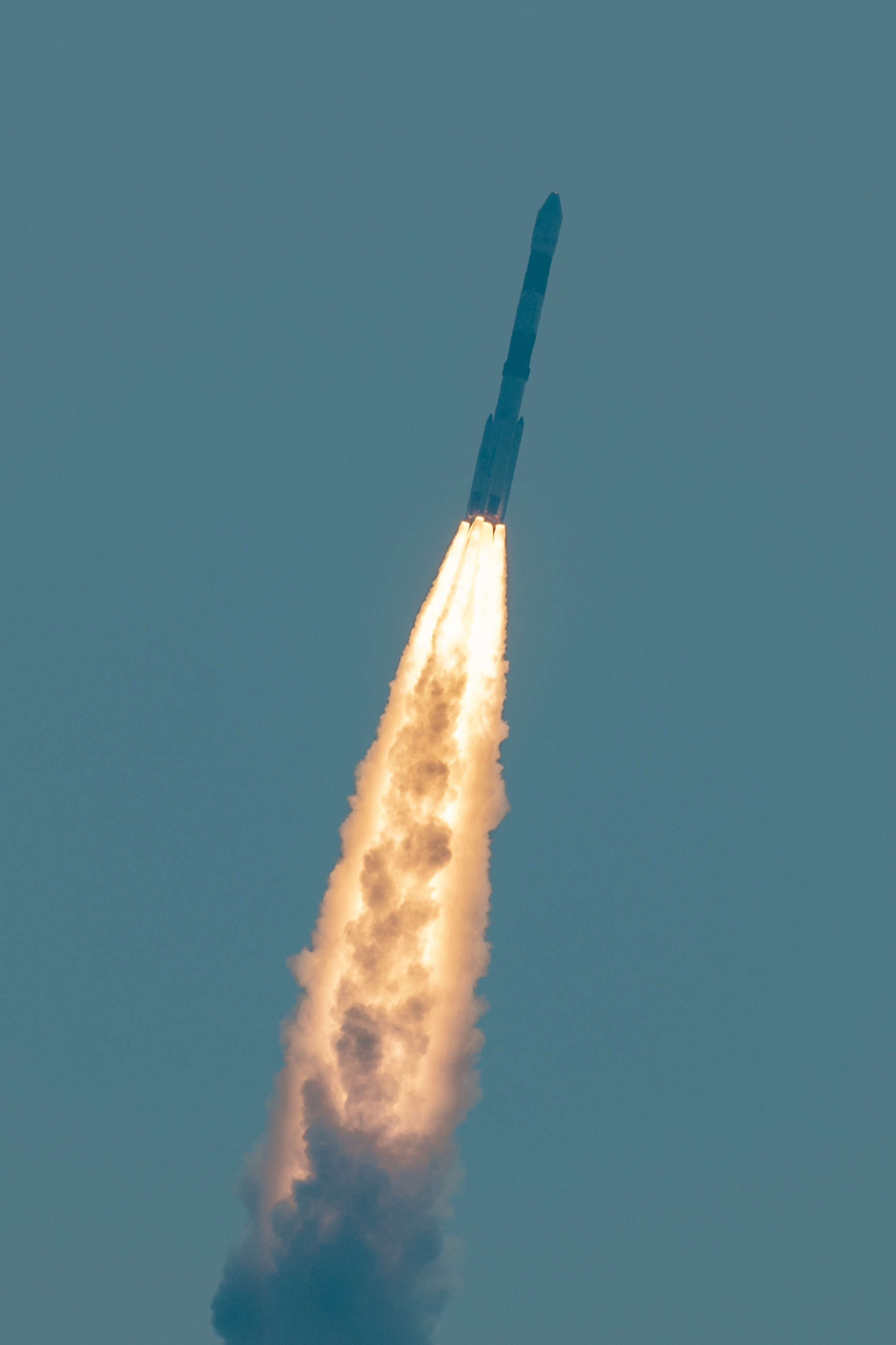 PSLV C-45 captured from launch view gallery